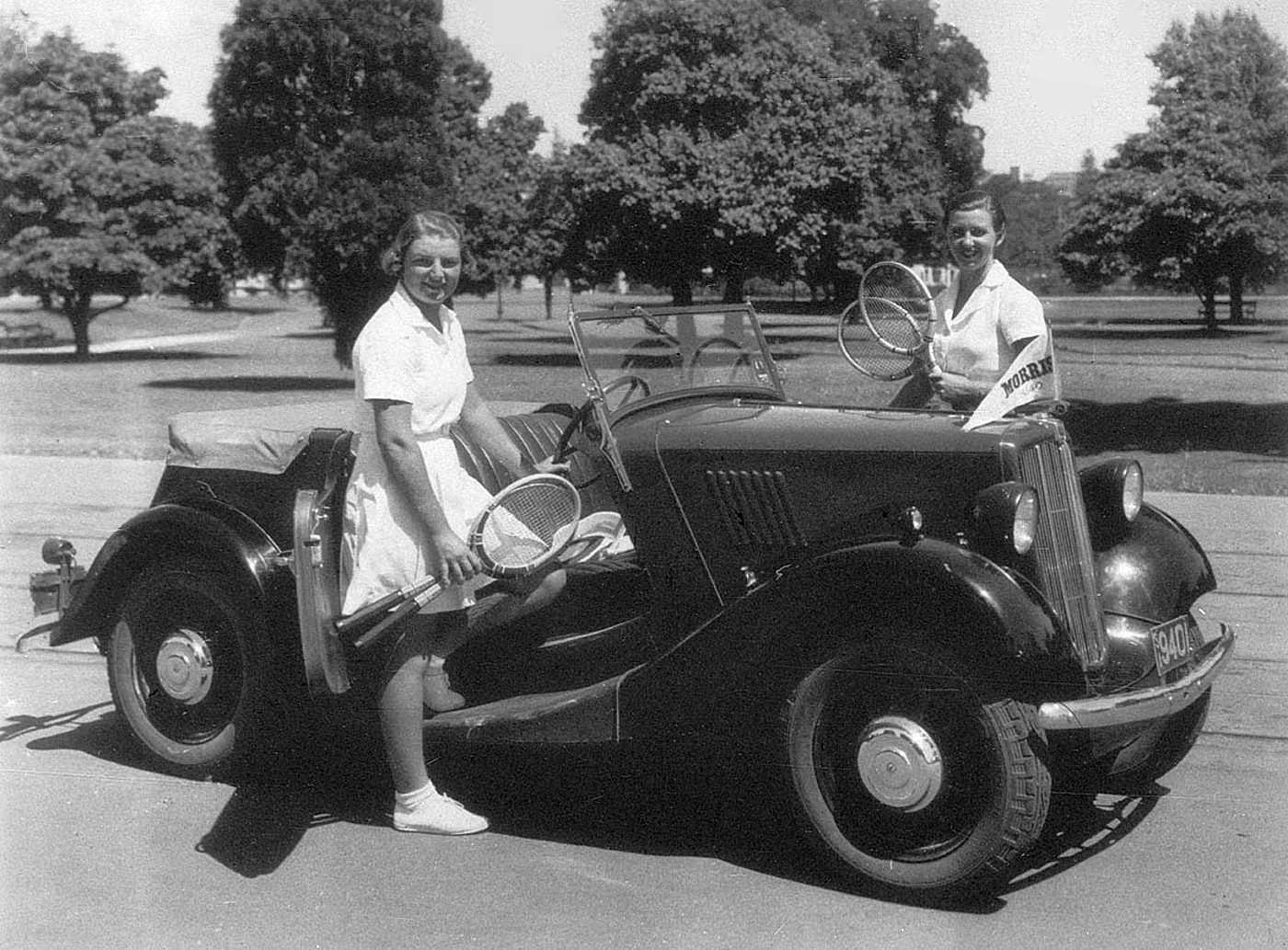 Australian tennis players Thelma Coyne (l) and Nancye Wynne (r), members of the Australian Womens' Tennis Team, with Morris 8/40 motorcar. The car had been loaned during the Australian Tennis Championship in Adelaide.